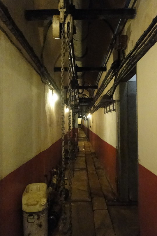 shell conveyor